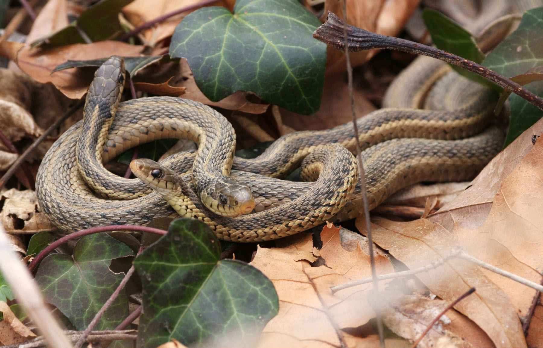 Image title: Garter snakes reptiles thamnophis sirtalis Image from Public domain images website